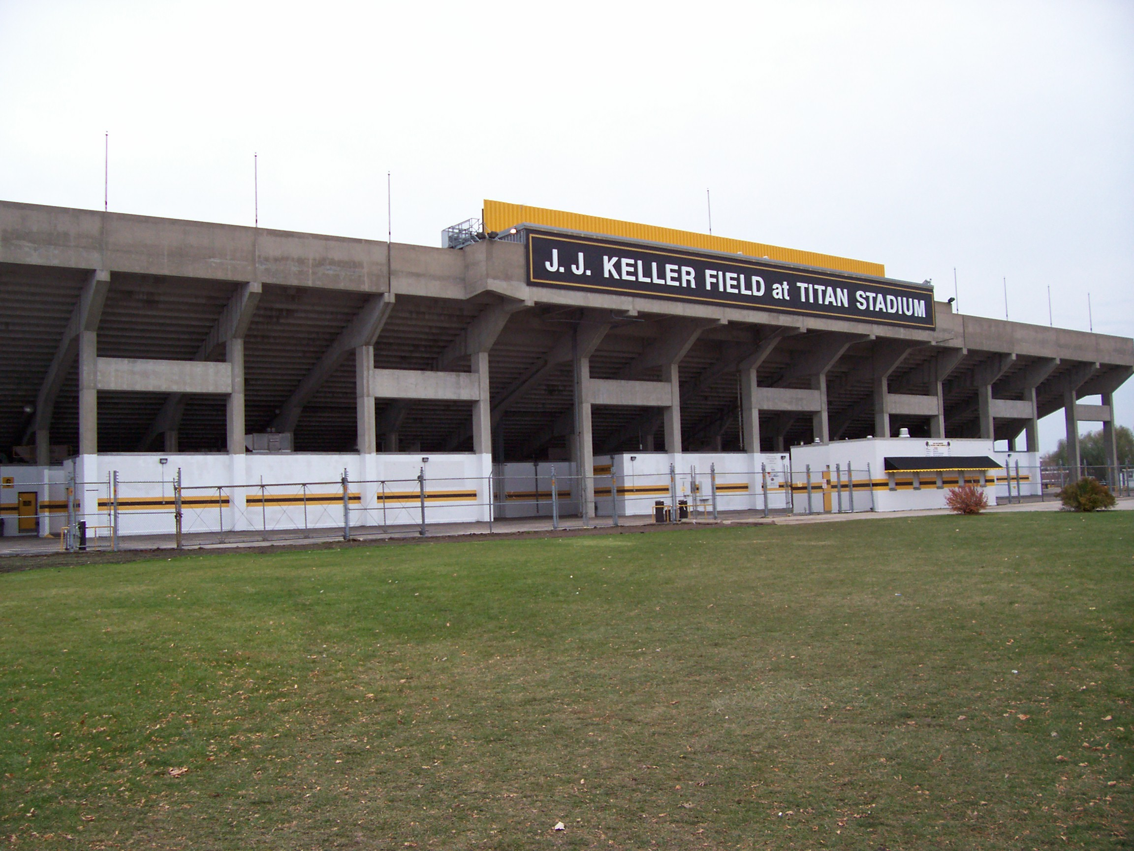 Titan Stadium, the football (American football) field for the University of Wisconsin-Oshkosh, located in Oshkosh, Wisconsin, USA. Taken October 26 2006 by myself.